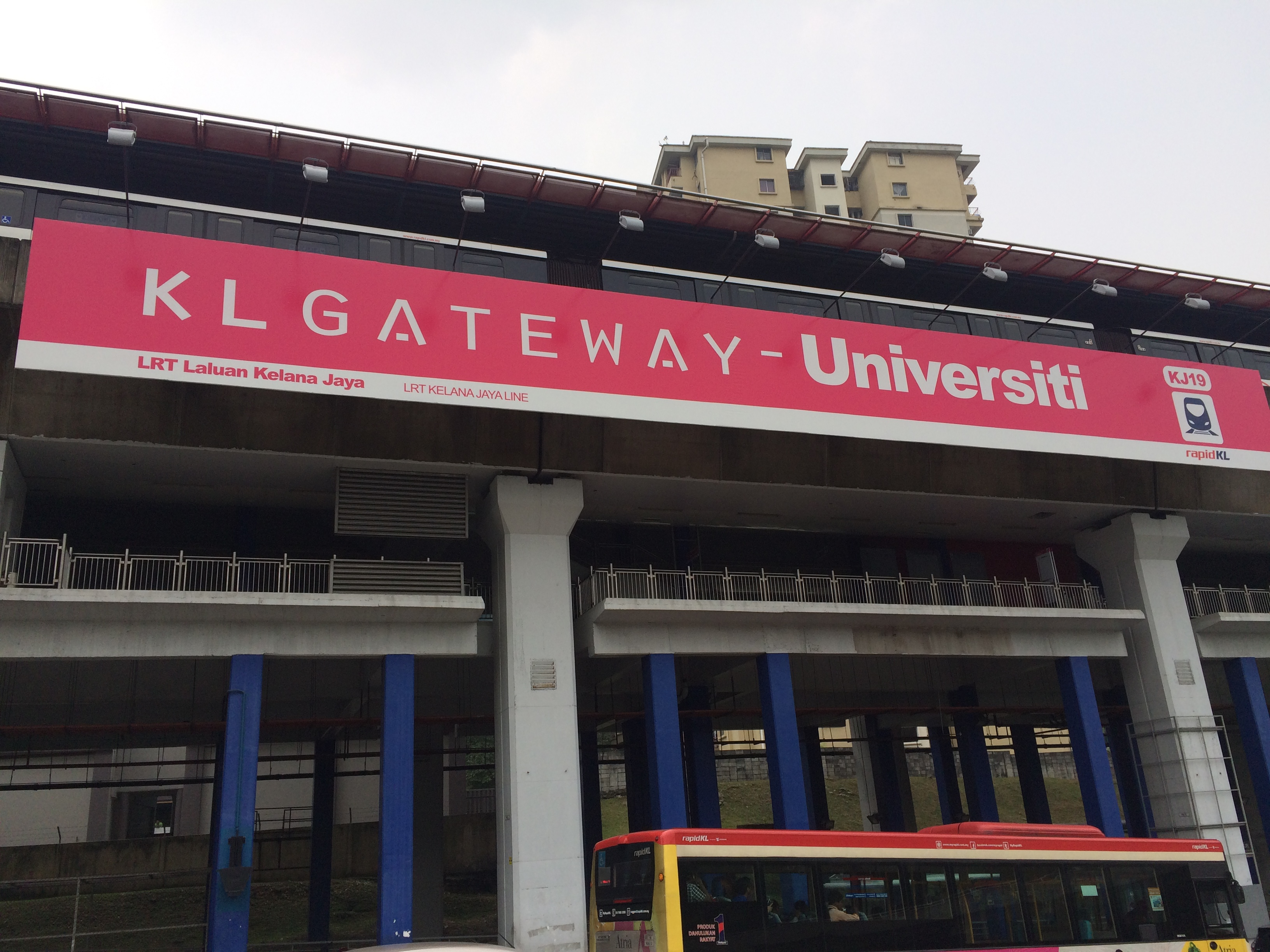 KL Gateway Universiti - Main board